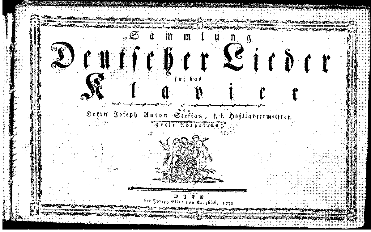 Joseph Anton Steffan (1726–1797): Deutsche Lieder